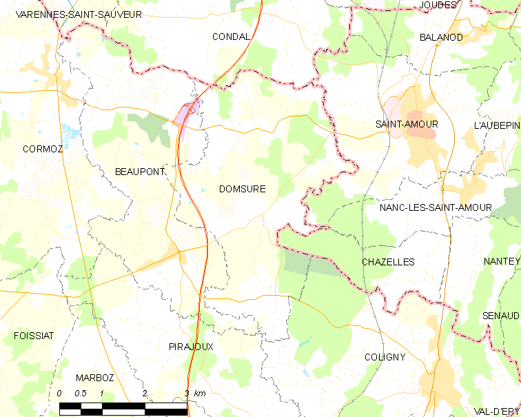 Map of French commune: Domsure Map commune FR insee code 01147.png